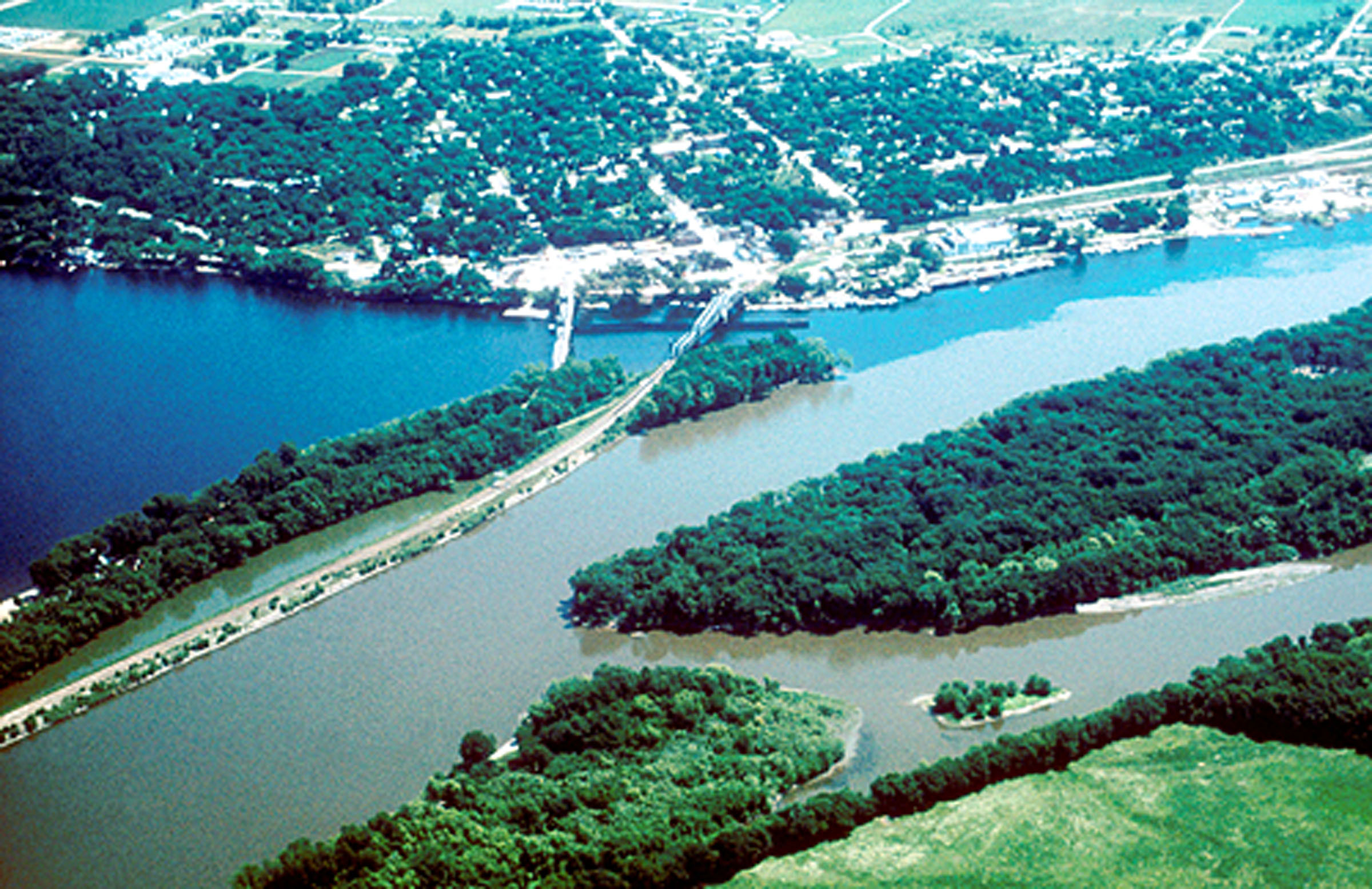 Aerial view of Prescott, Wisconsin, at the confluence of the St. Croix National Scenic Riverway (left) and the Mississippi River (right).